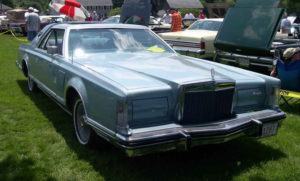 1978 Lincoln Mark V Diamond Jubilee